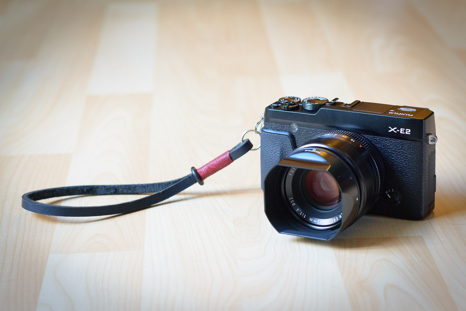 Fujifilm X-E2 taken by Scott Hill